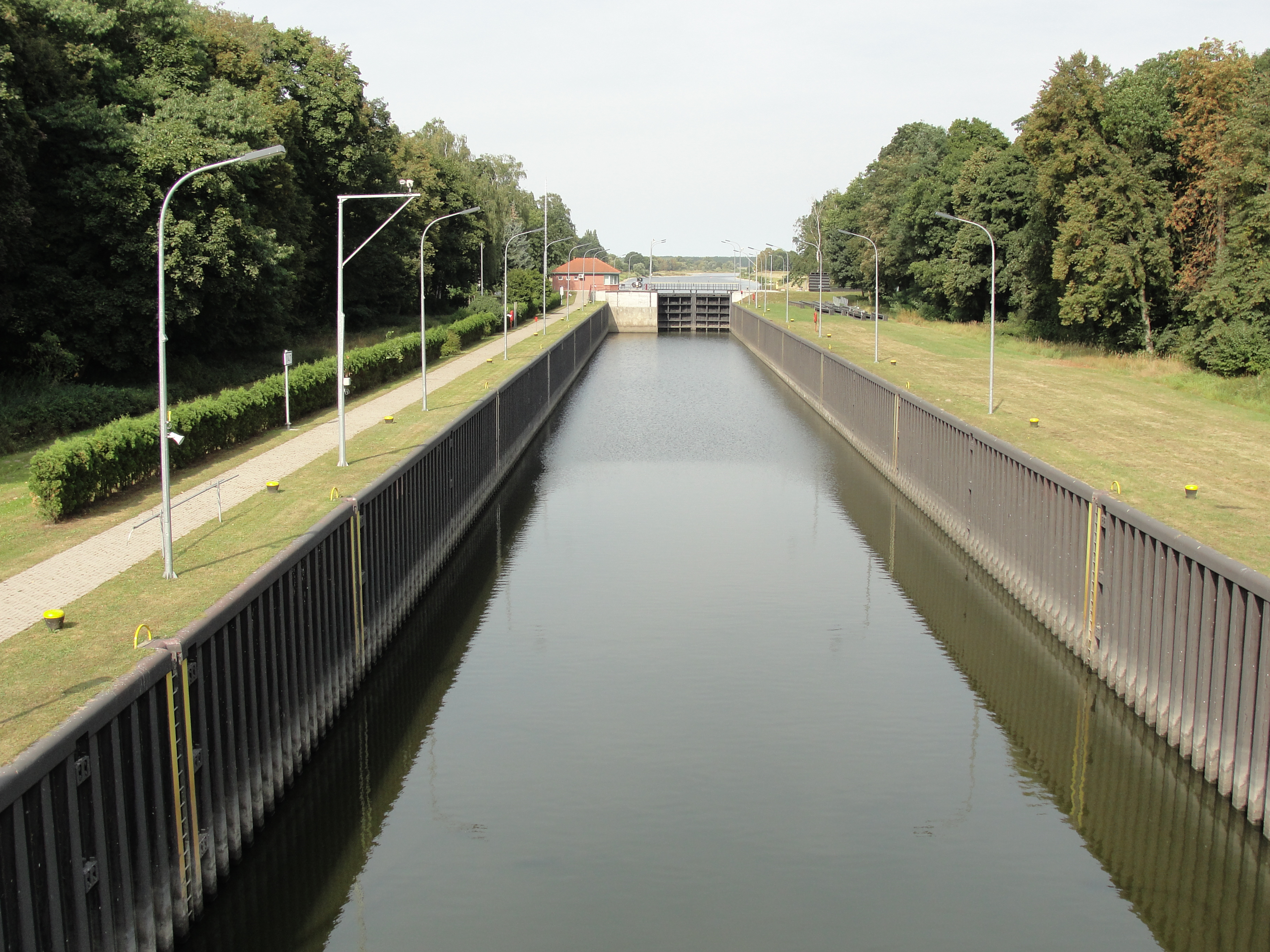 Canal lock Havelberg between the rivers Havel and Elbe.